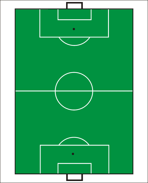 futbol field